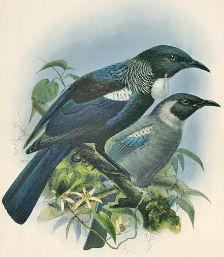 Tui (Adult and young). A pair of tui seen in profile perched on branches with native clematis in flower. The nearer adult bird shows its full range of plumage colour and a wattle. The younger bird has no wattle and is mostly grey in plumage, with blue on its wings only.